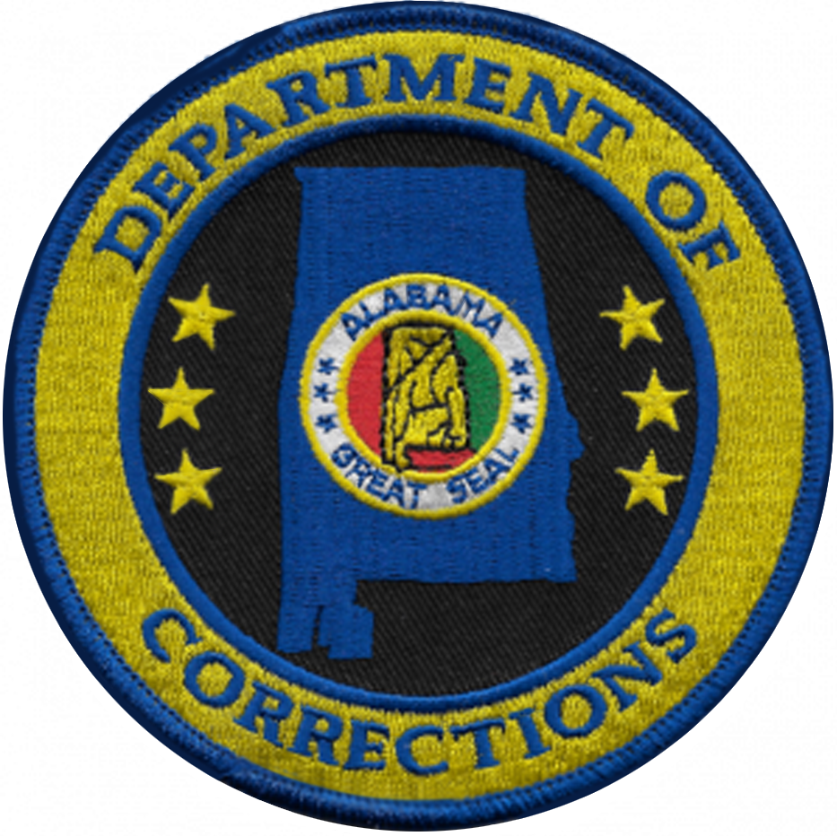 A representation of the shoulder patch used by the Alabama Department of Corrections to identify the agency to the public.